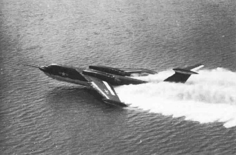 A U.S. Navy Martin YP6M-1 SeaMaster taking off.